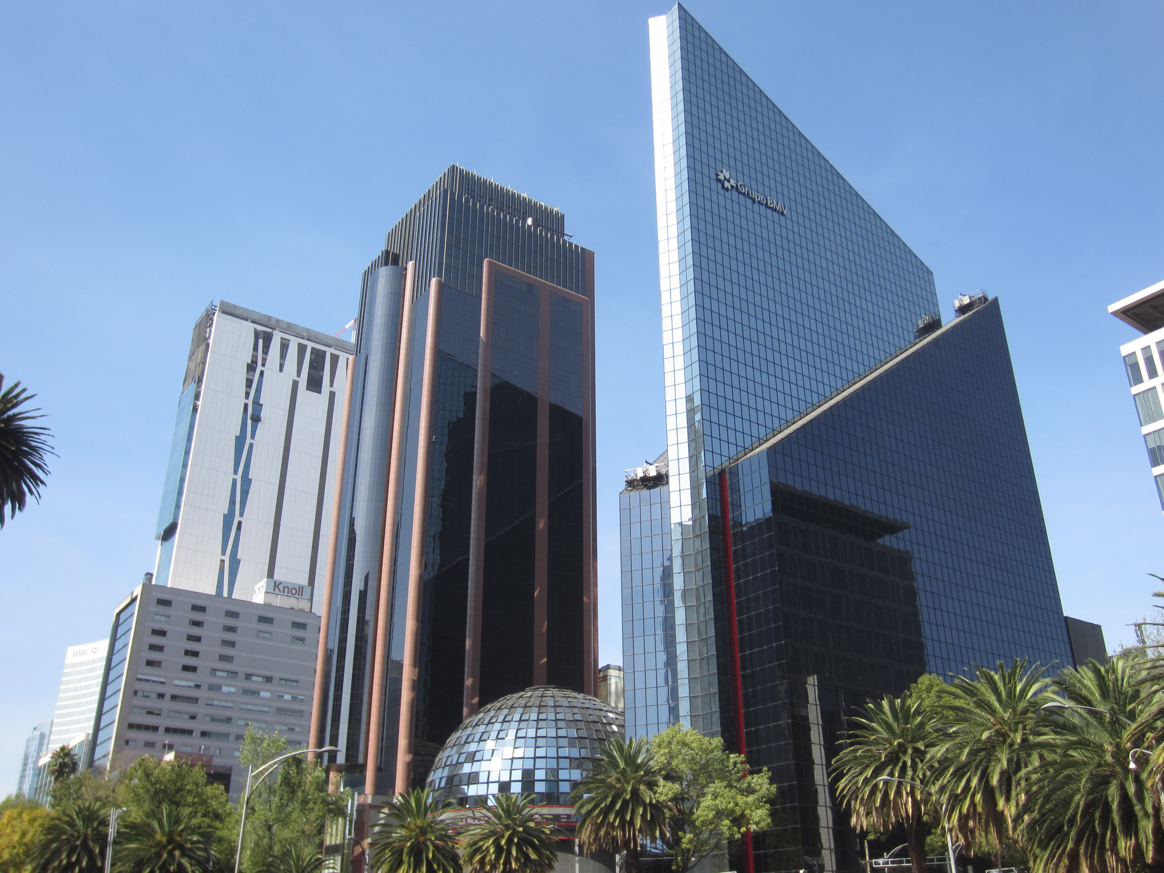 Mexico City (2018)